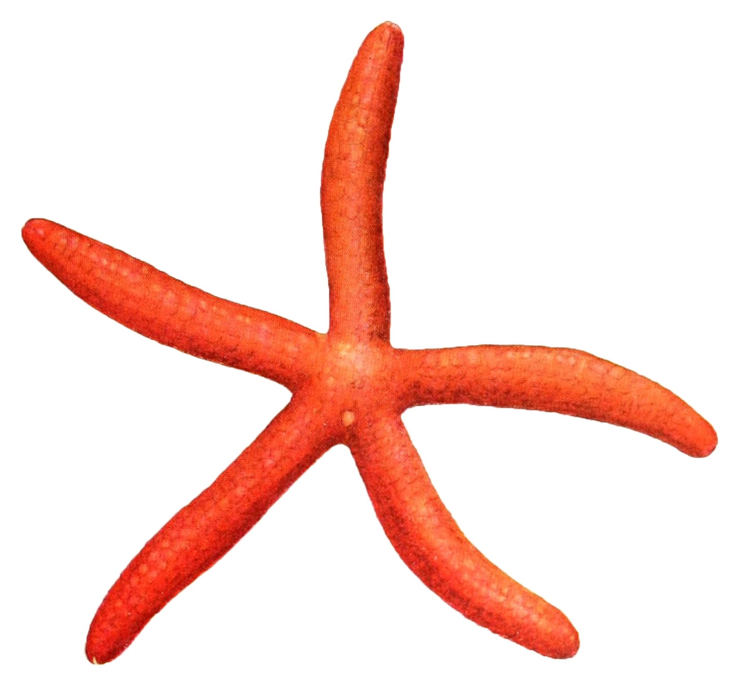 Plate 10. Fig. 2. Ophidiaster confertus H. L. C. Lord Howe Island. (In the colored plates, all figures are shown natural size, with the aboral or (in holothurians) dorsal side up, unless otherwise stated. Unless designated as young, the specimens were normal adults but in some cases small individuals were selected to save space. In the uncolored plates, the dorsal side is shown, but in some species the oral side is also presented. As a rule the holotype serves as the basis of the photograph. The magnification varies but is indicated in each case.)